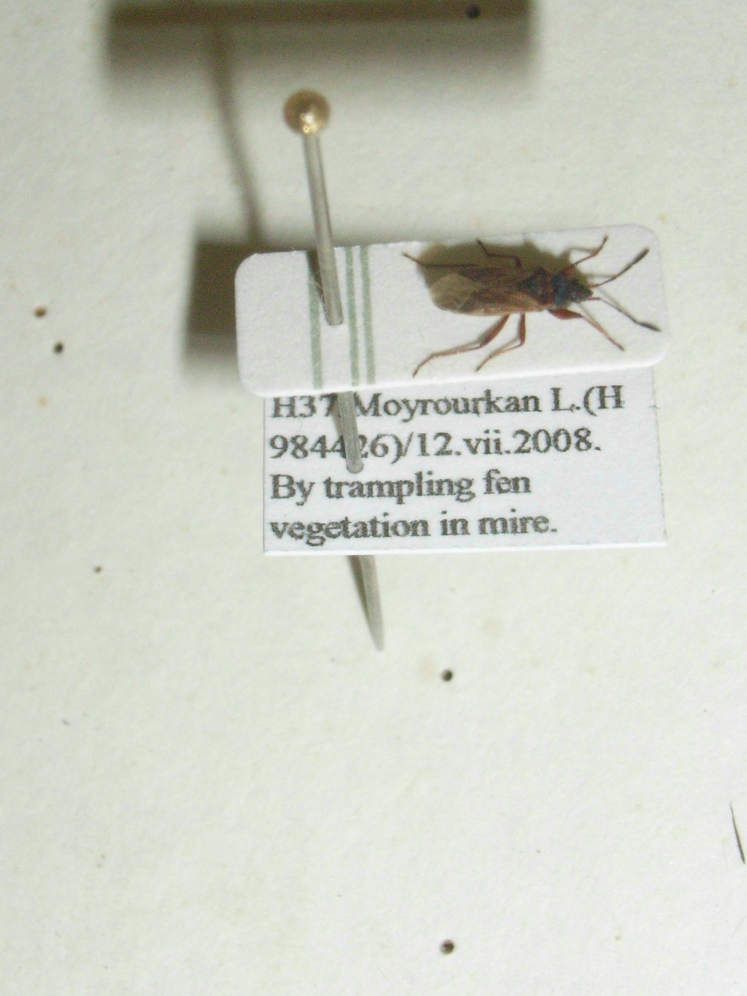 Cardespecimen of Hemiptera.Note the guide lines on the card and the c. 1/3 spacing of card and data label on the entomological pin